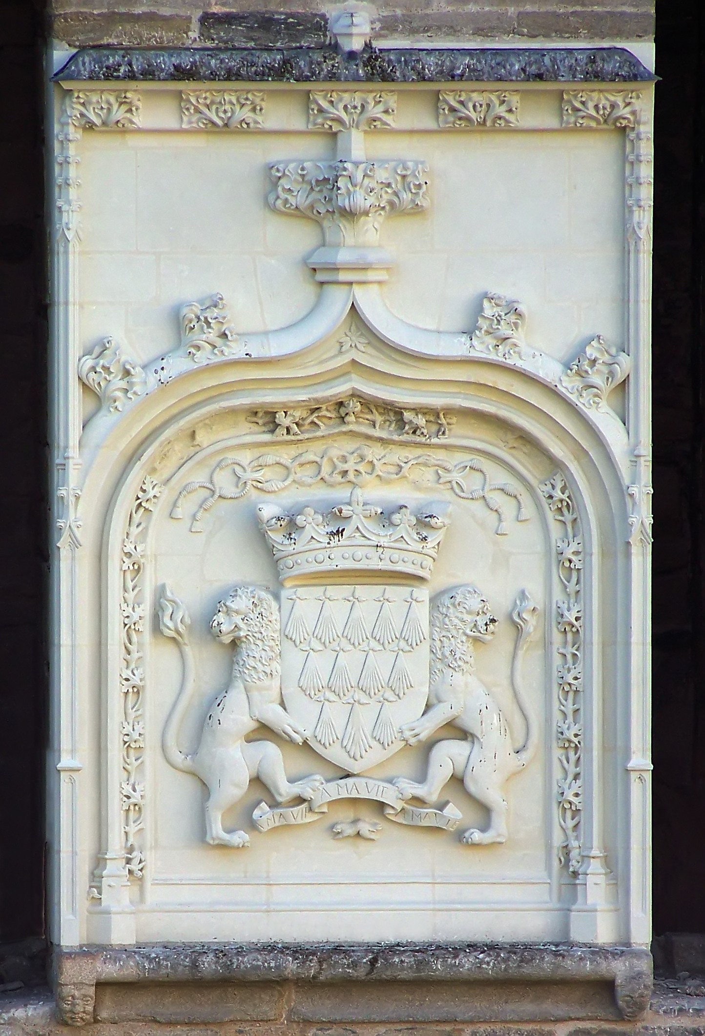 Coat of arms and motto of the Dukes of Britanny on the northern wall of their castle in Nantes.